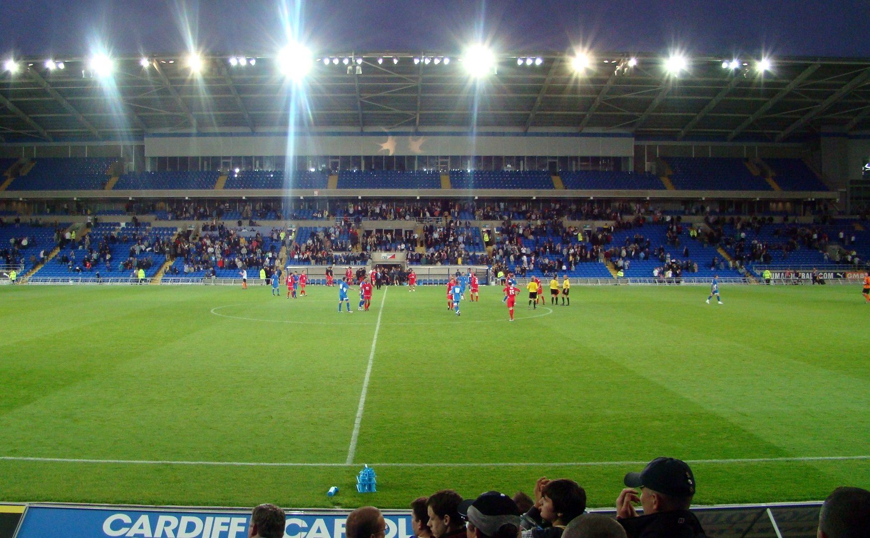 10/07/09 Cardiff City v Chasetown, Friendly, Cardiff City Stadium, Cardiff, Wales